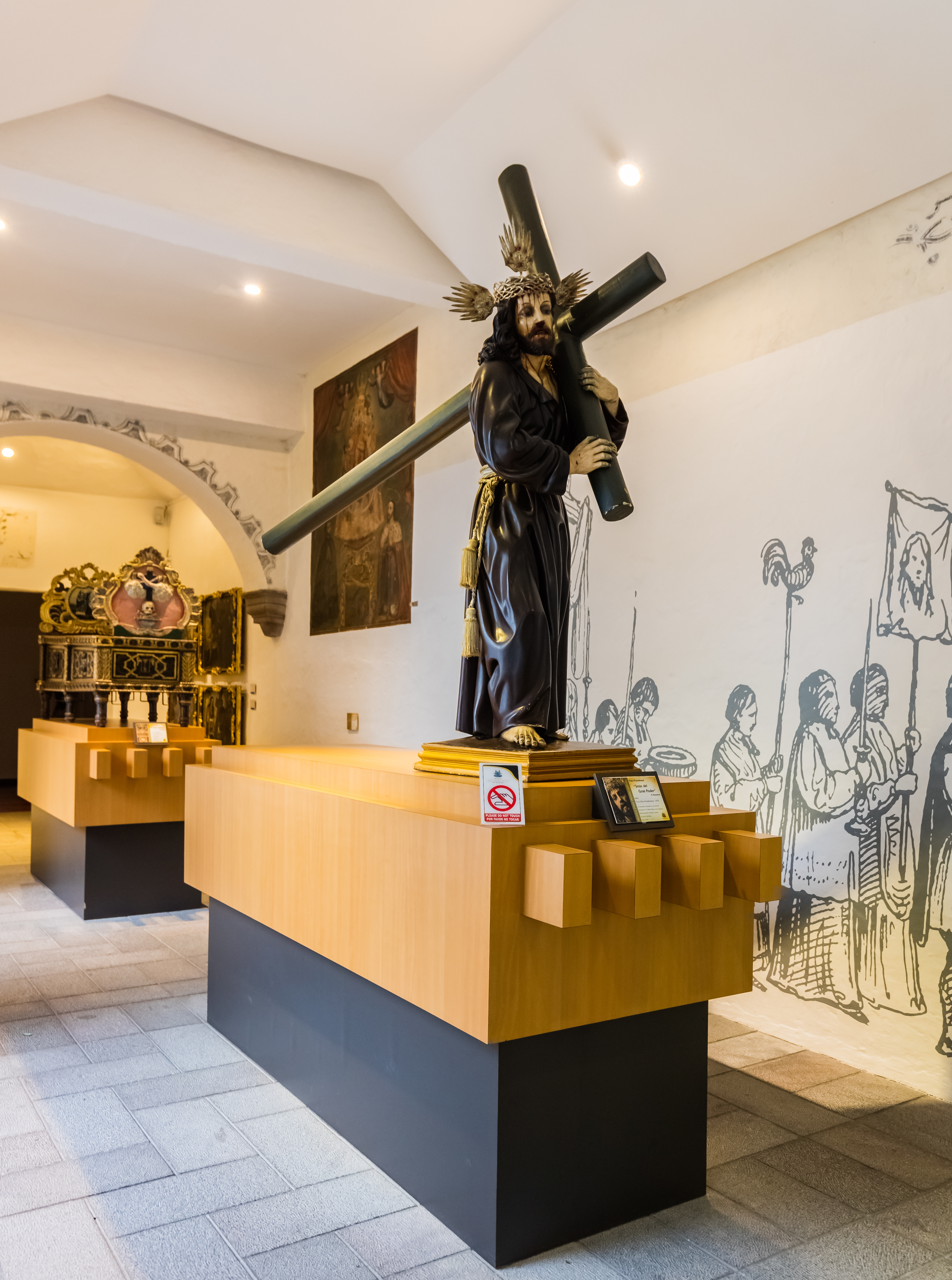 Museum of the San Francisco church, Quito, Ecuador